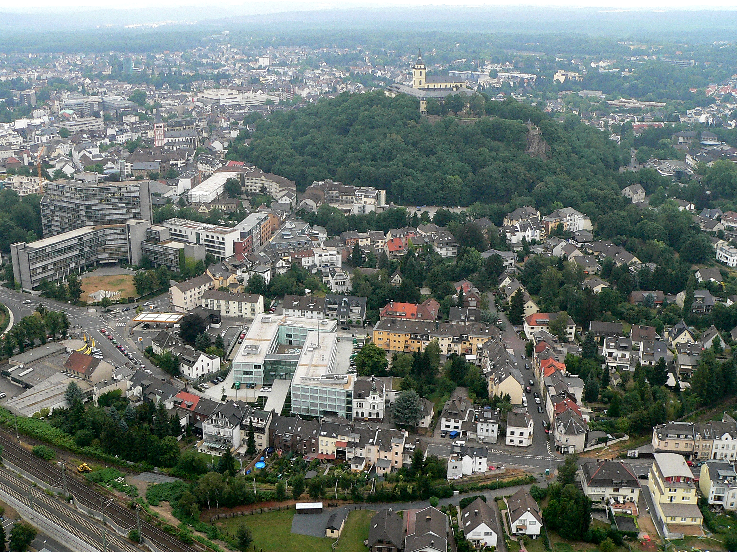 Aerial photograph of Siegburg